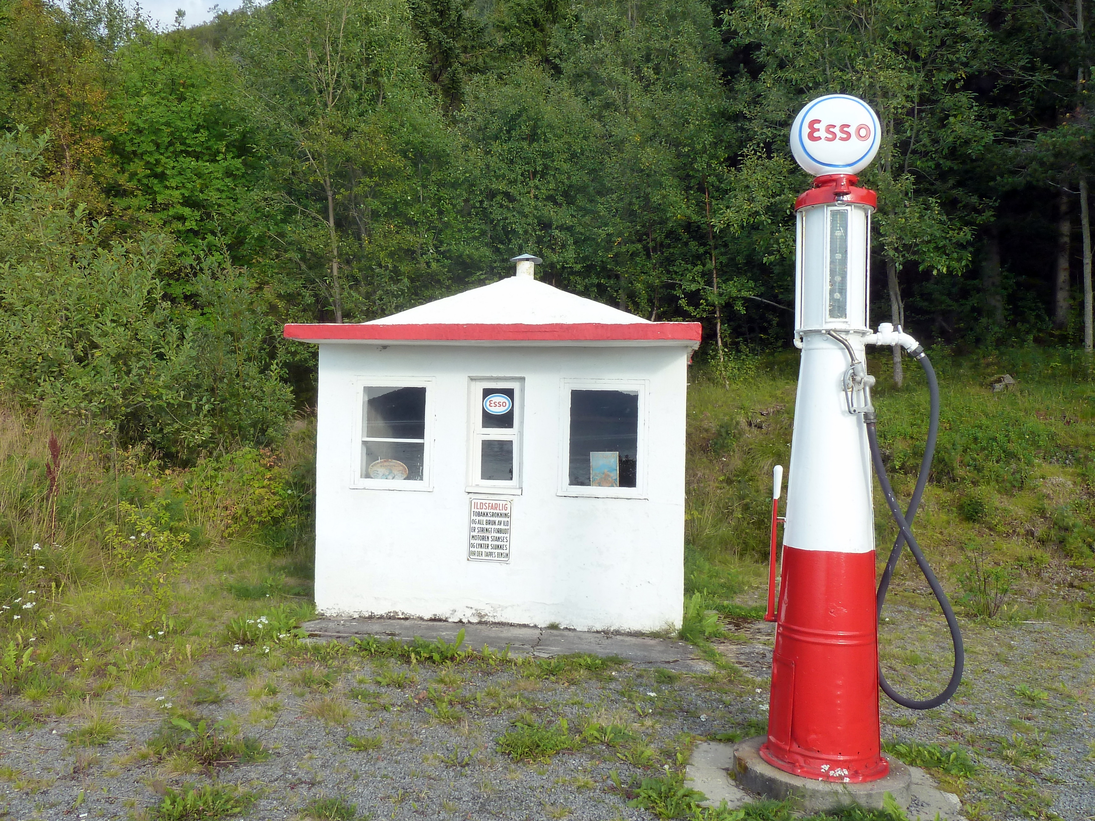 Old, un-used but restored, Esso petrol station, built 1946, placed next to E6 in Sørkil, north of Ulvsvåg, in Hamarøy, Nordland, Norway.